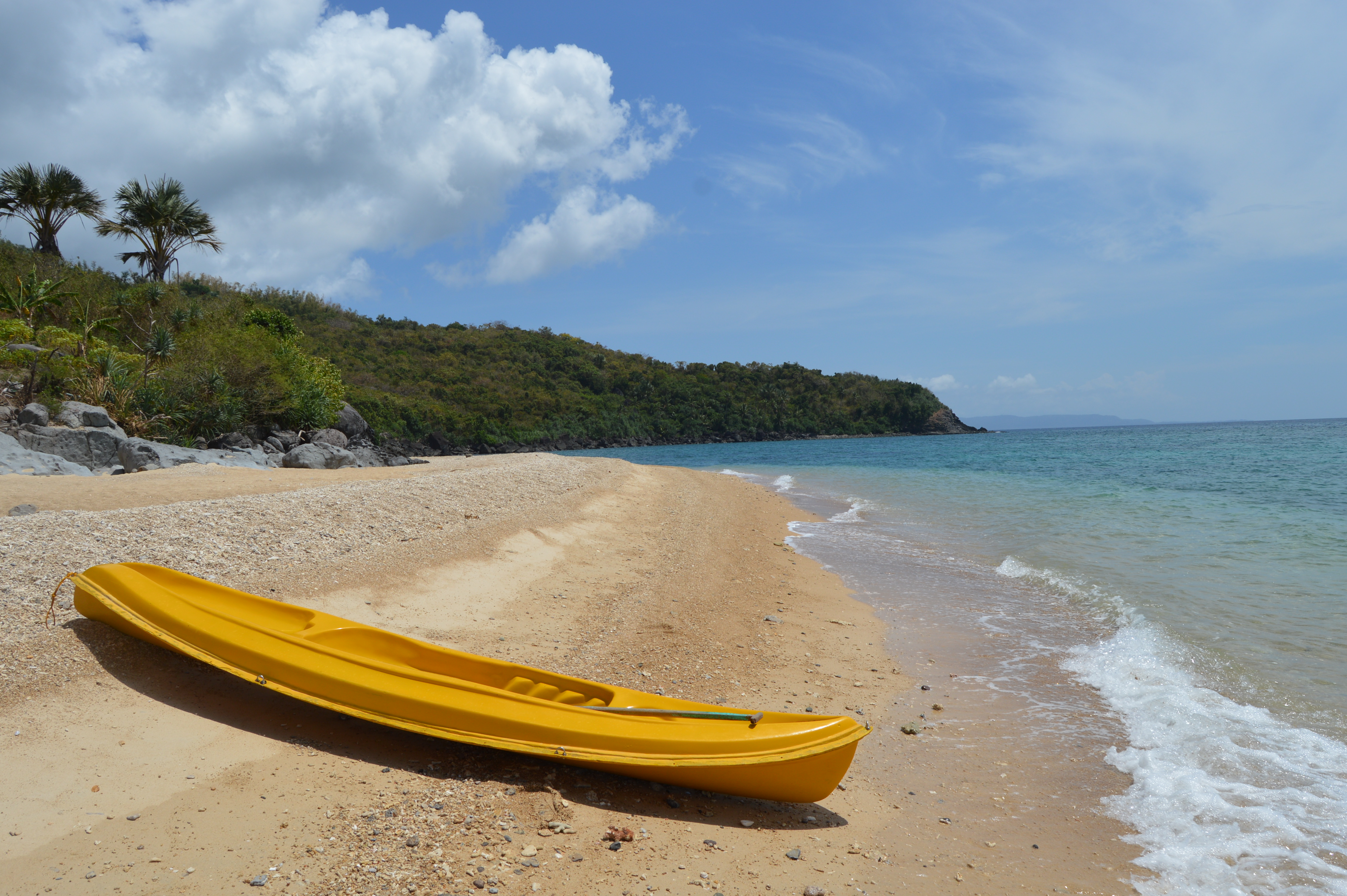 Tabunan Beach is a white sand beach in Barangay Yabawon in Banton, Romblon.